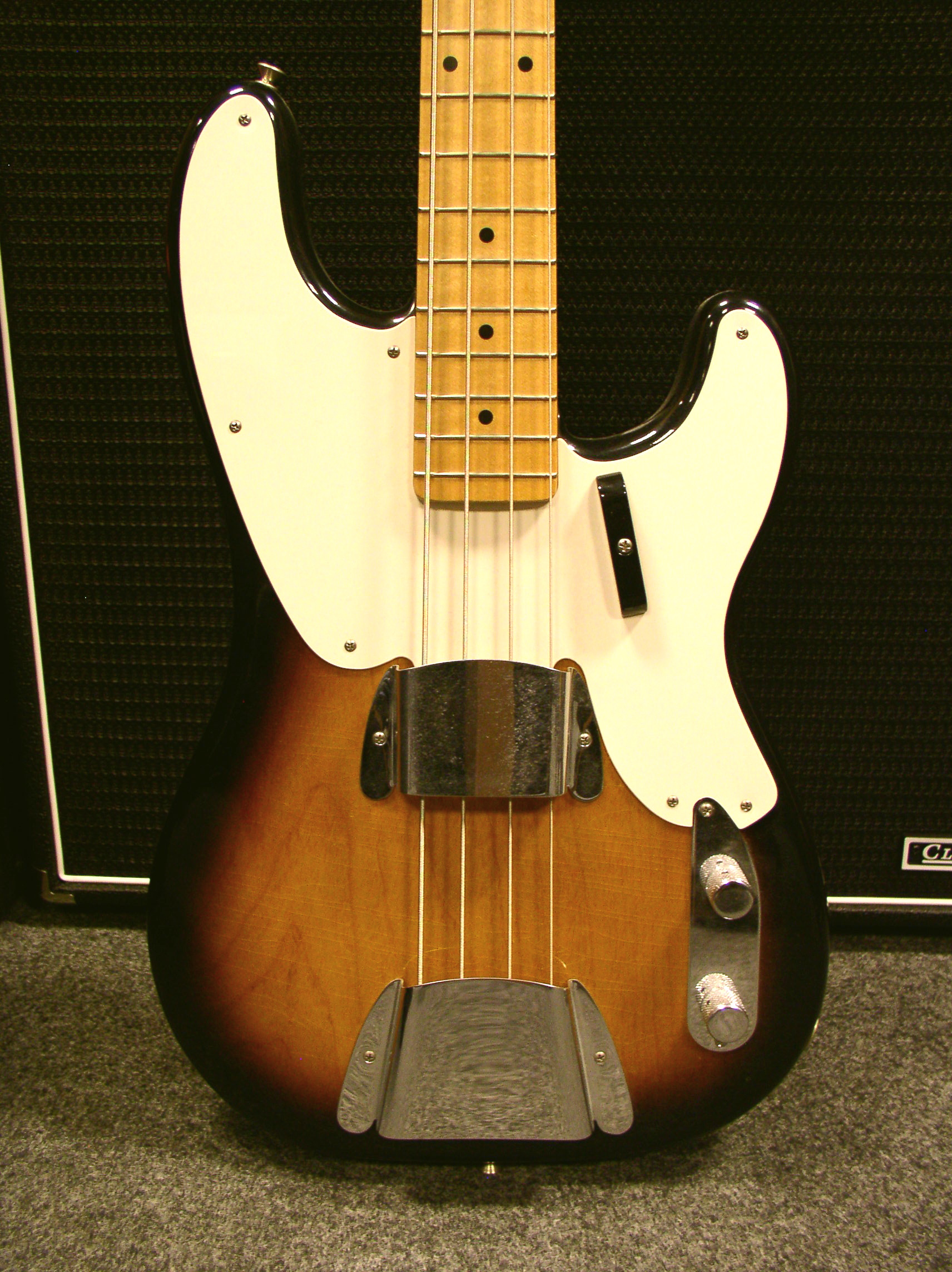 Body of a Fender Precision Bass 1956 reissue (“master built” instrument)